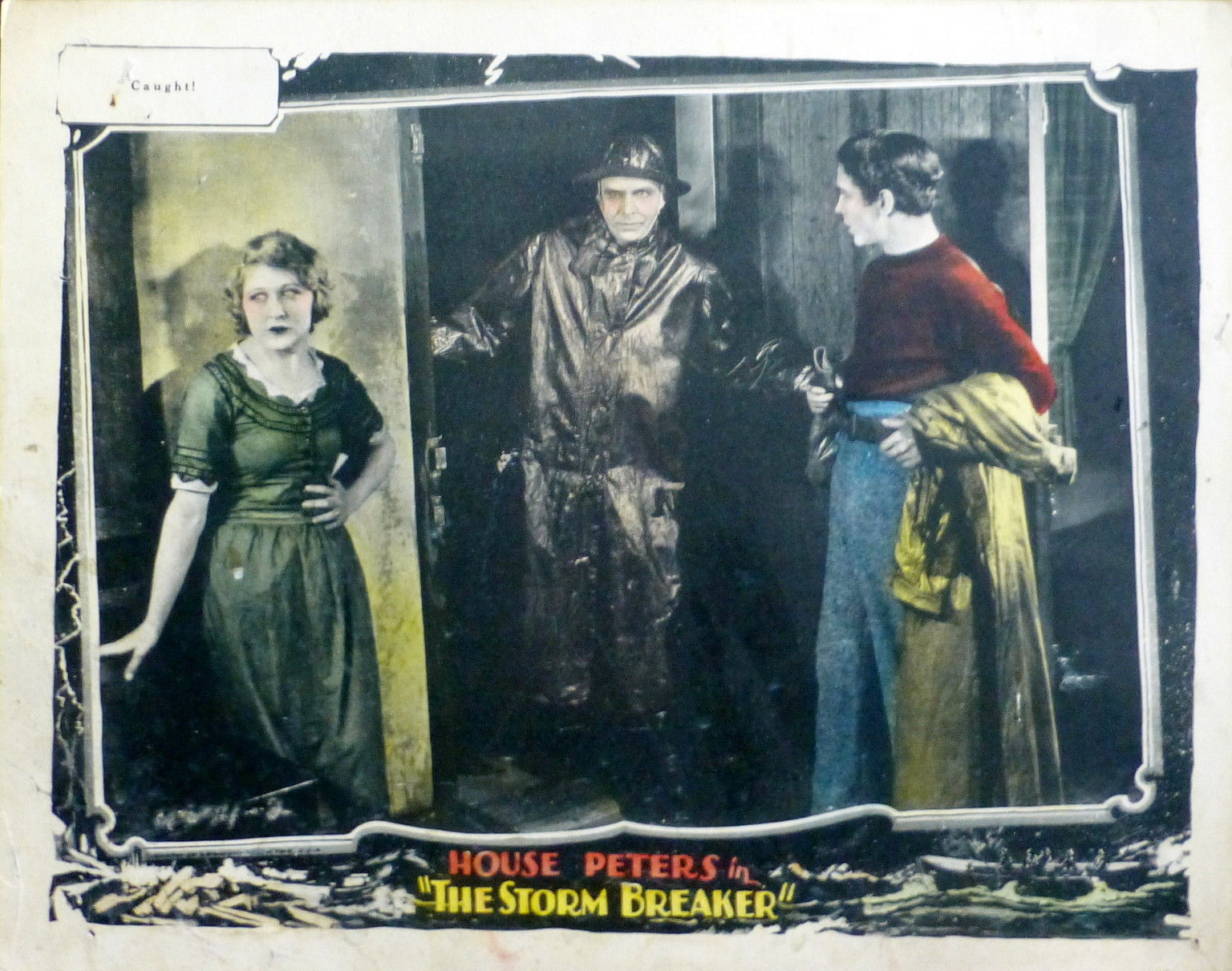 Lobby card for the American drama film The Storm Breaker (1925) with Ruth Clifford, House Peters, and Ray Hallor.